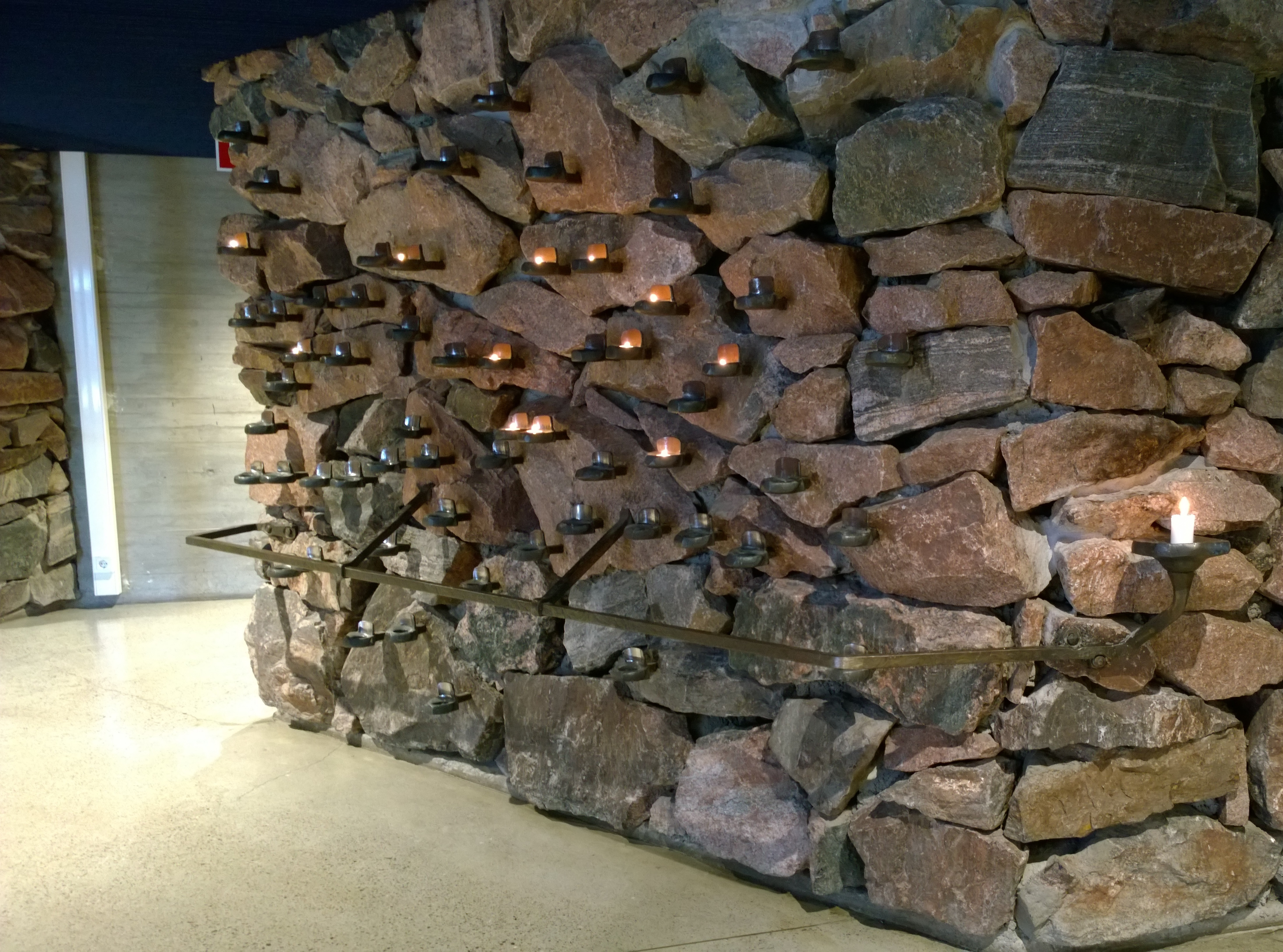 Espoonlahti Church entrace hall, votive candle holders by Kauko Moisio